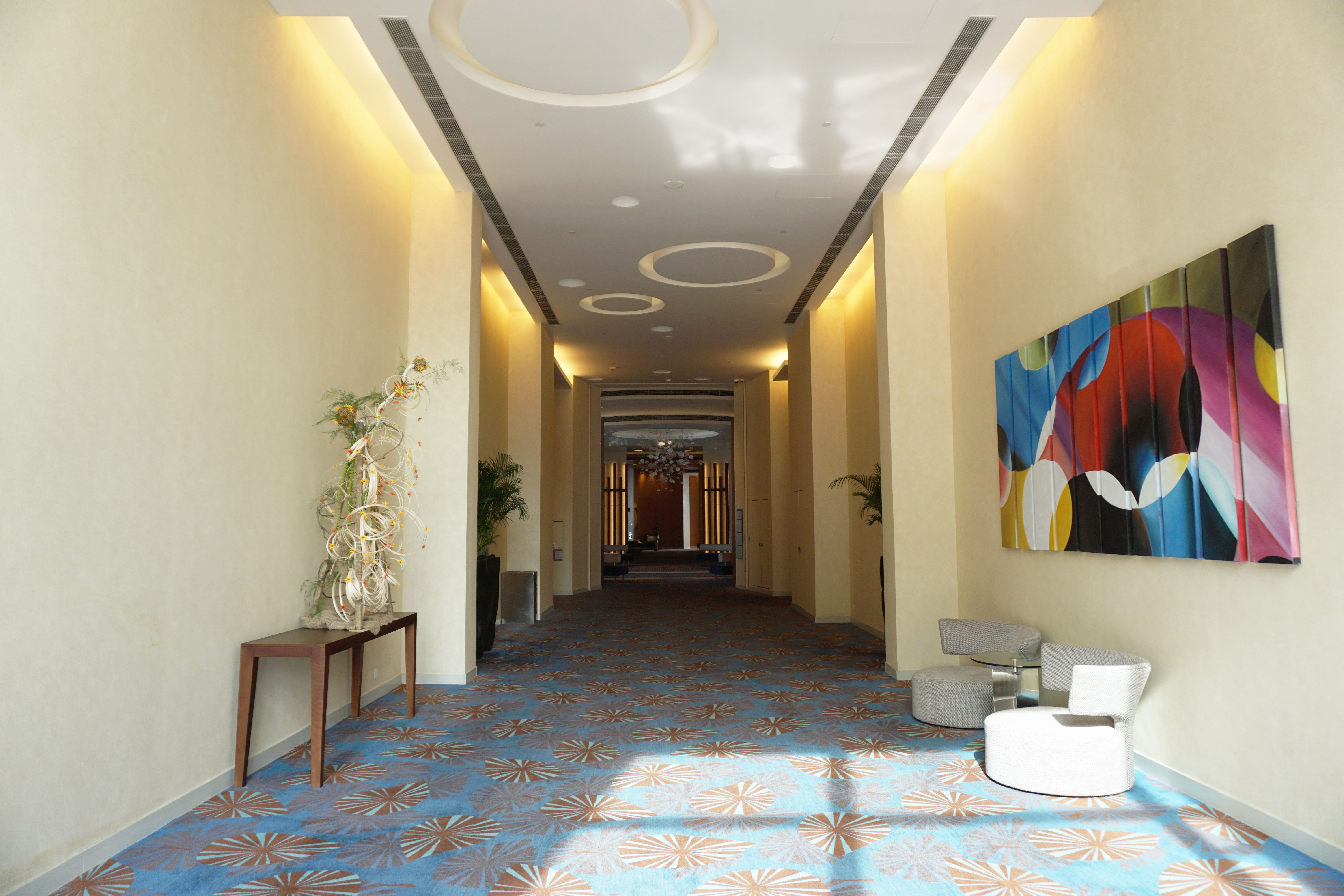 Auberge hotel in Discovery Bay, Hong Kong.